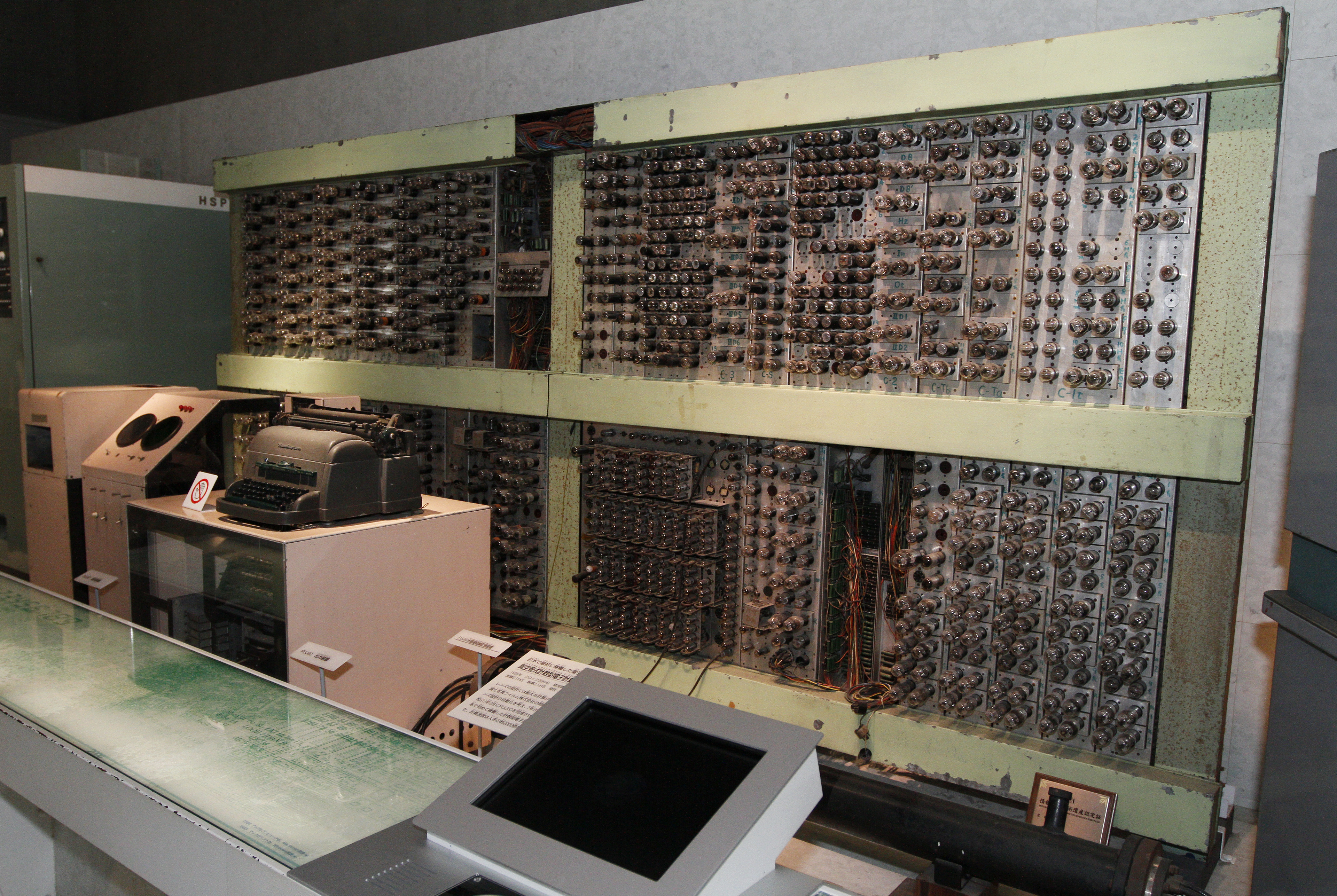 FUJIC (1979)